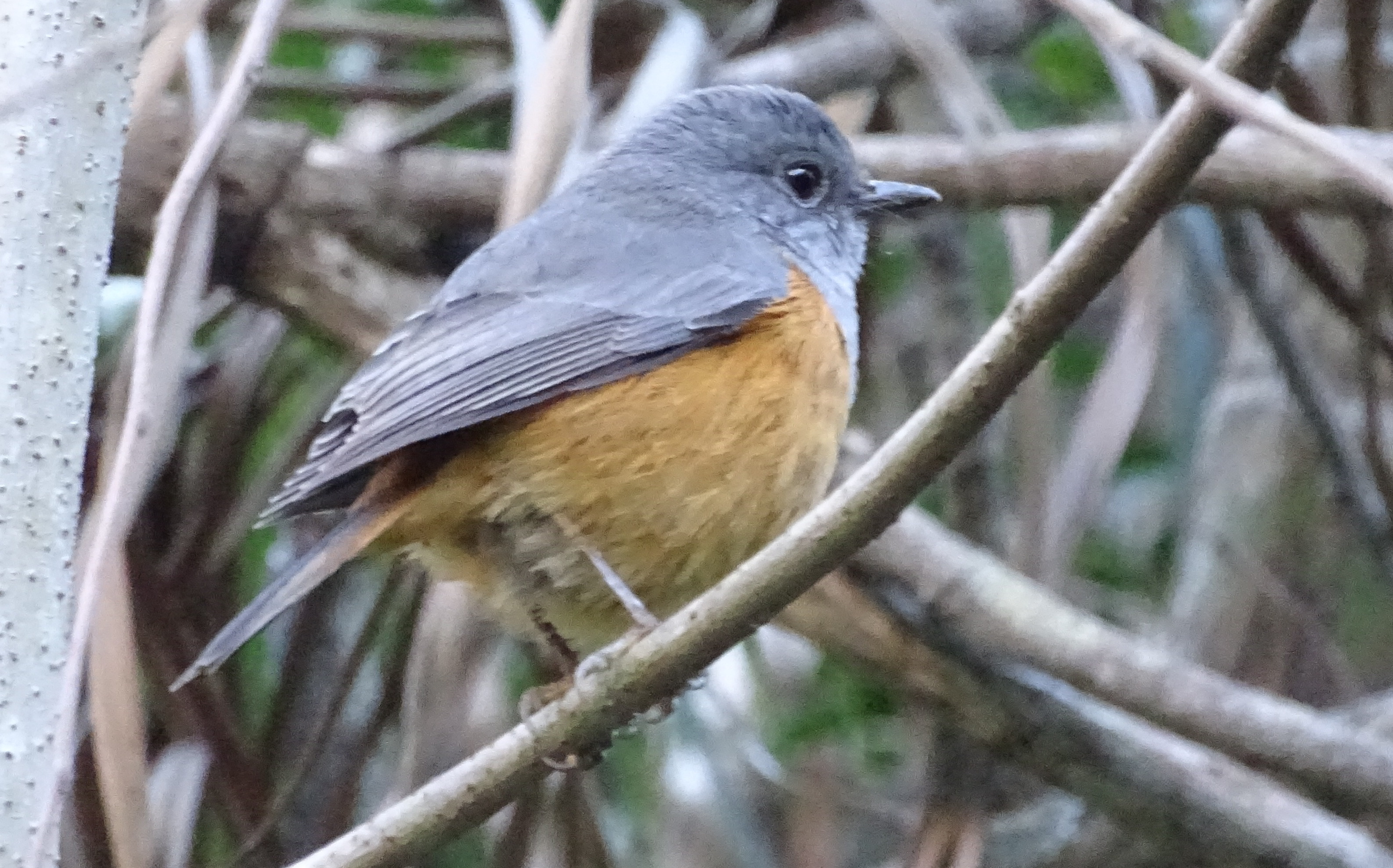 Benson’s rock thrush (male)